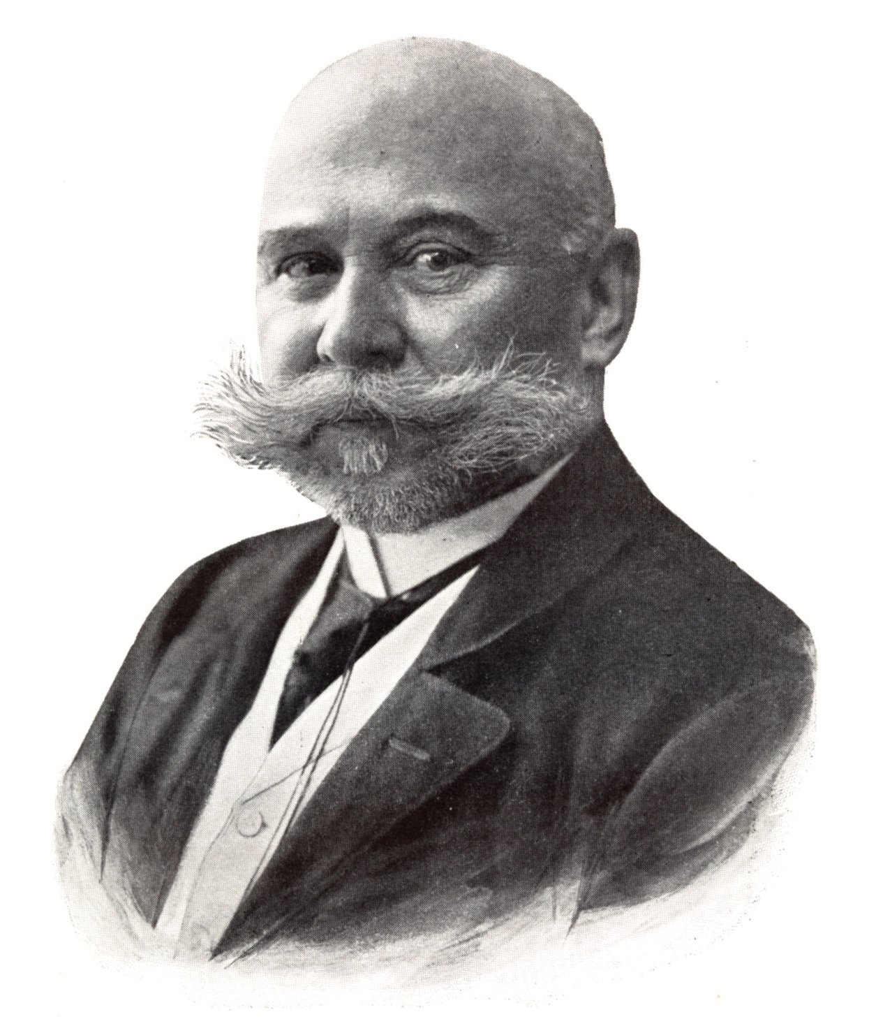 Dezső Bánffy (1843-1911), Hungarian politician, prime minister